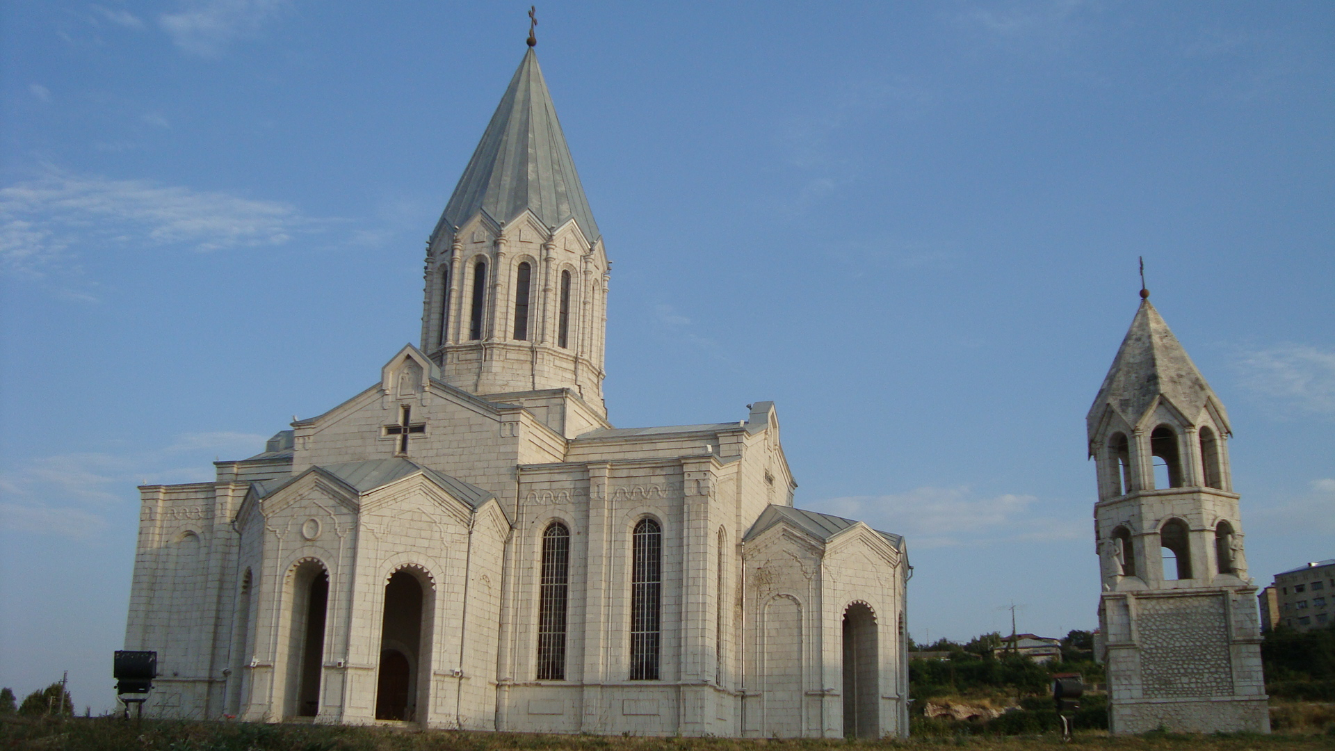 Ghazanchetsots Cathedral. Shushi, Republic of Mountainous Karabakh (Artsakh).